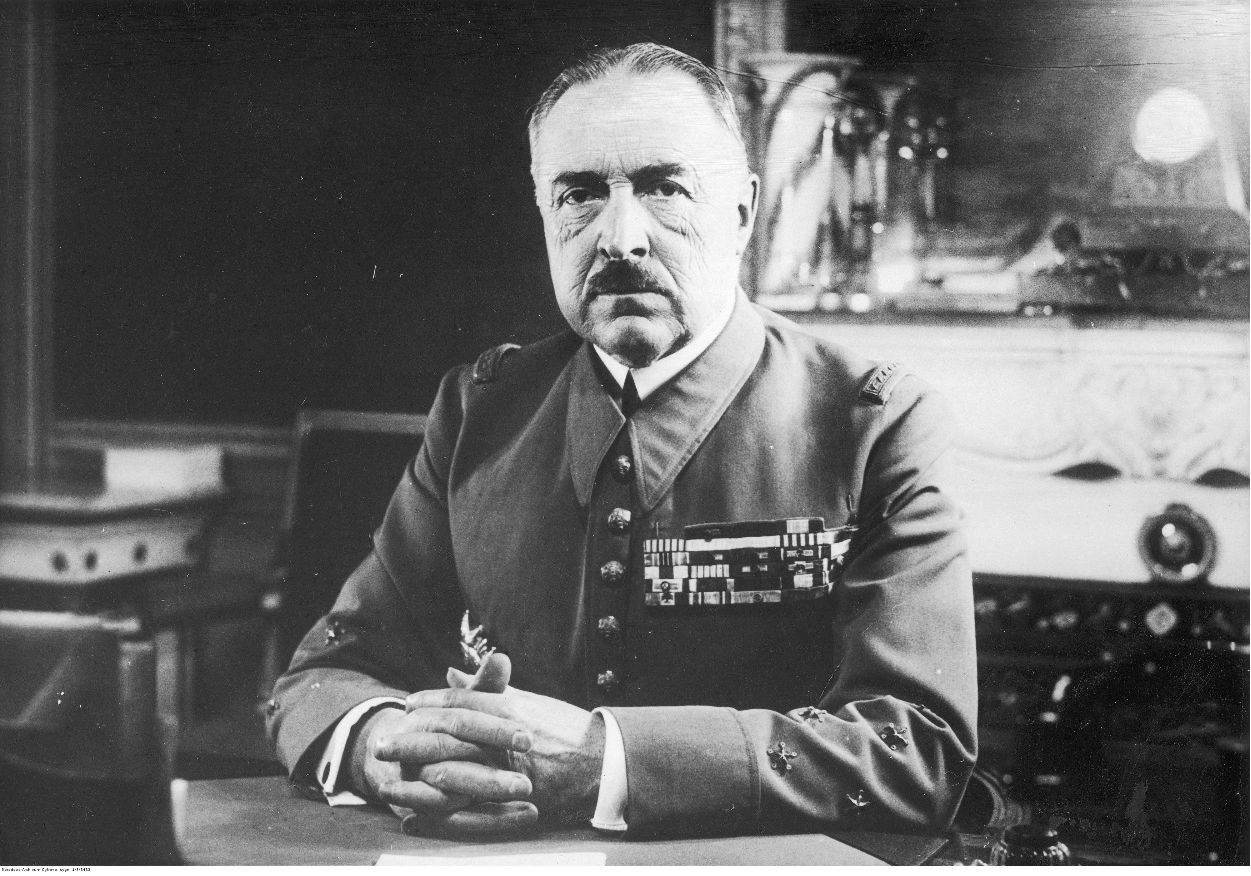 Gaston Billotte, French general as military governor of Paris, later commander of the French First Army Group